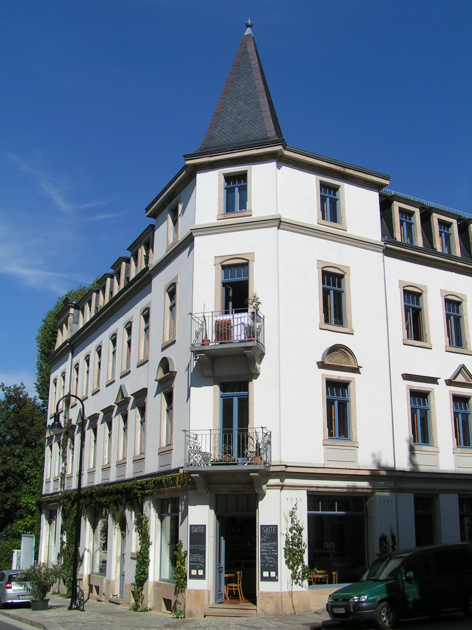 Dresden, Hechtviertel, Seitenstraße